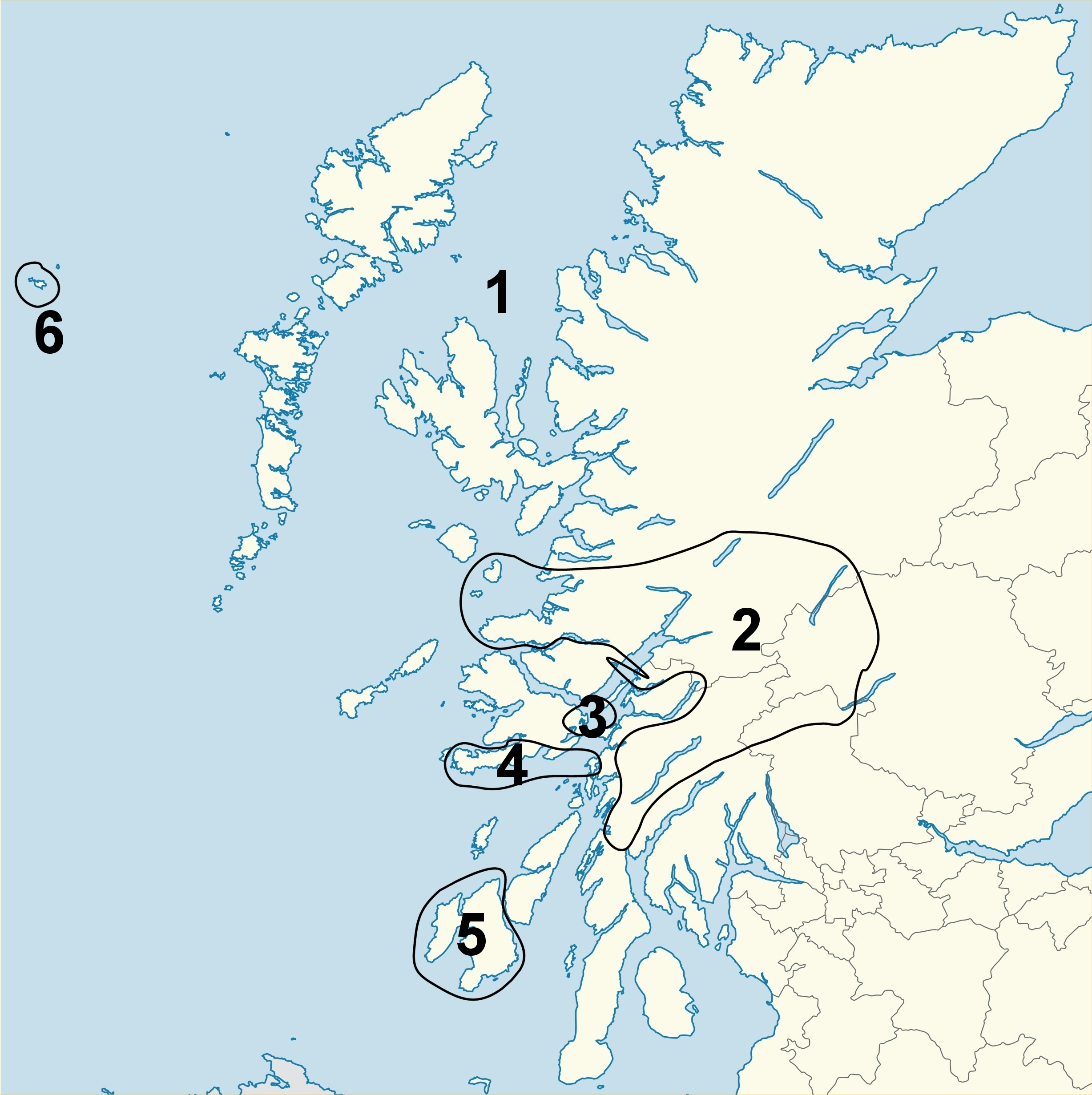 Location map of Scotland, United Kingdom Equirectangular projection, N/S stretching 170 %. Geographic limits of the map: * N: 61.0° N * S: 54.5° N * W: 8.8° W * E: 0.4° W